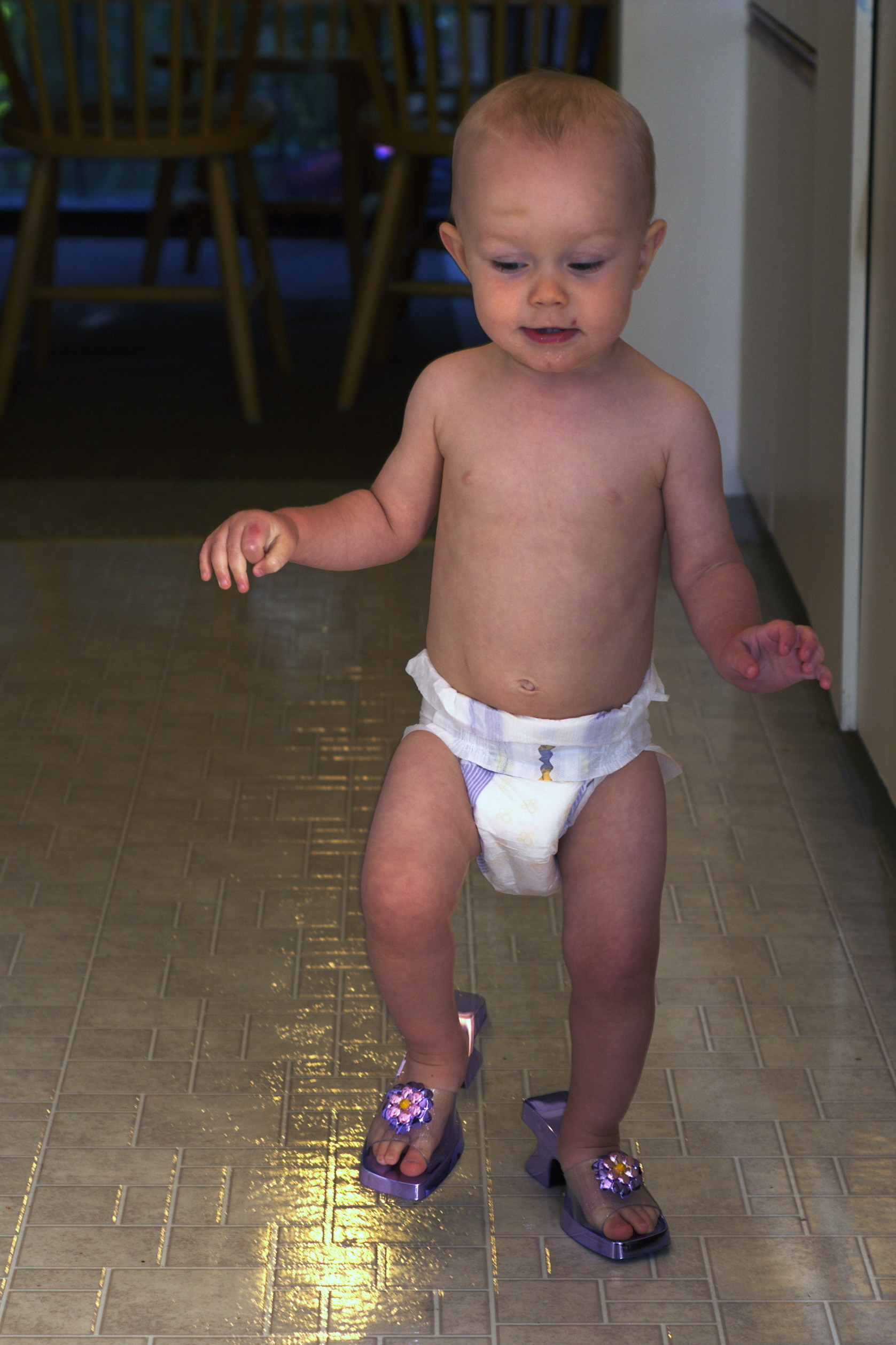 A toddler wearing a diaper